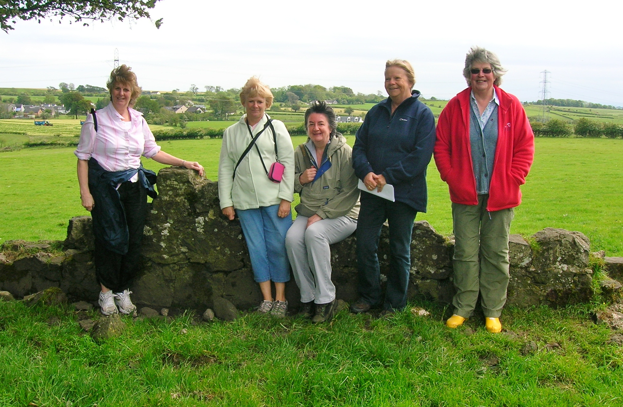 The Beith Ladies Walking Group at Hill of Beith Castle, North Ayrshire, Scotland